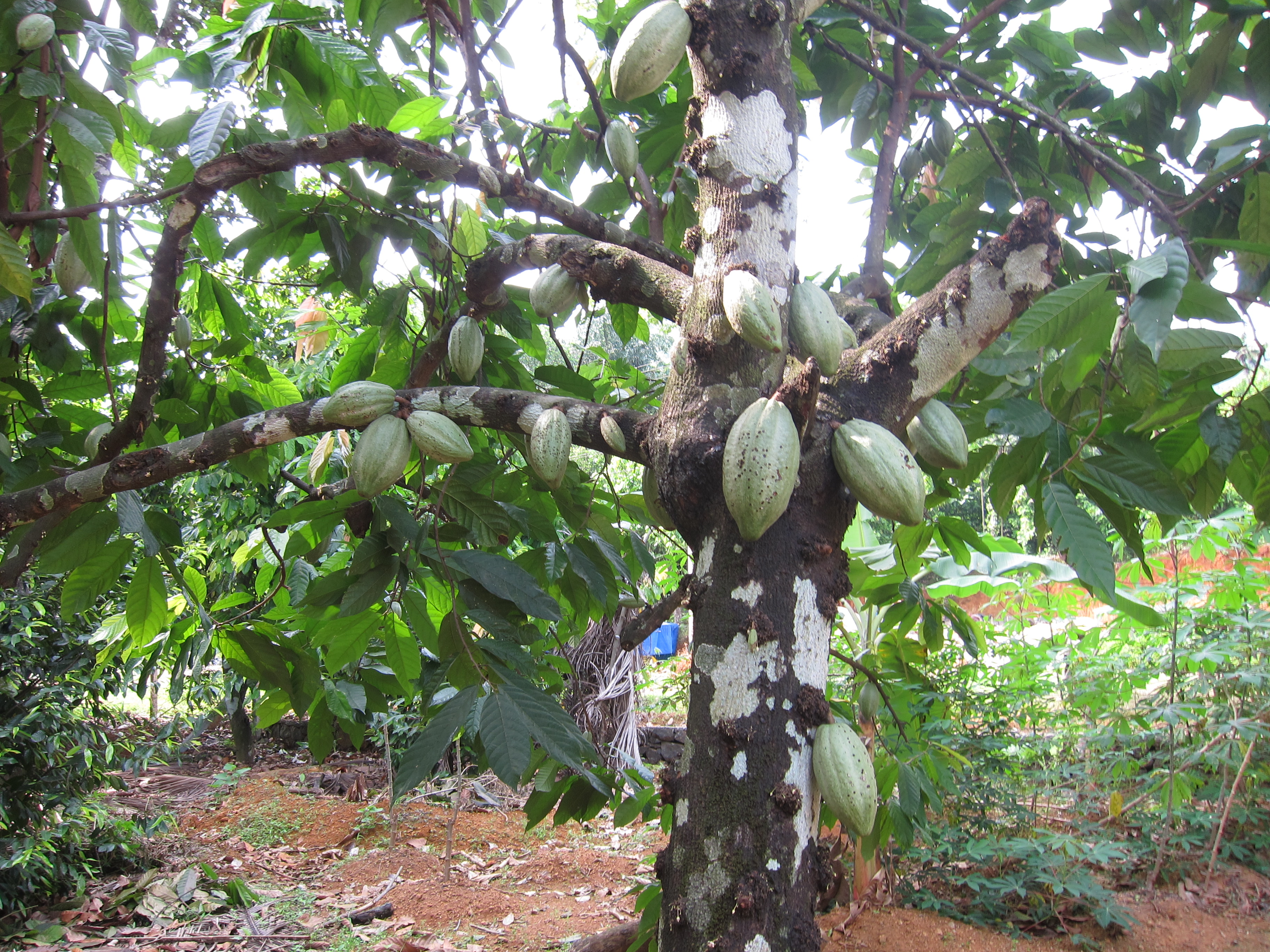 Coco in